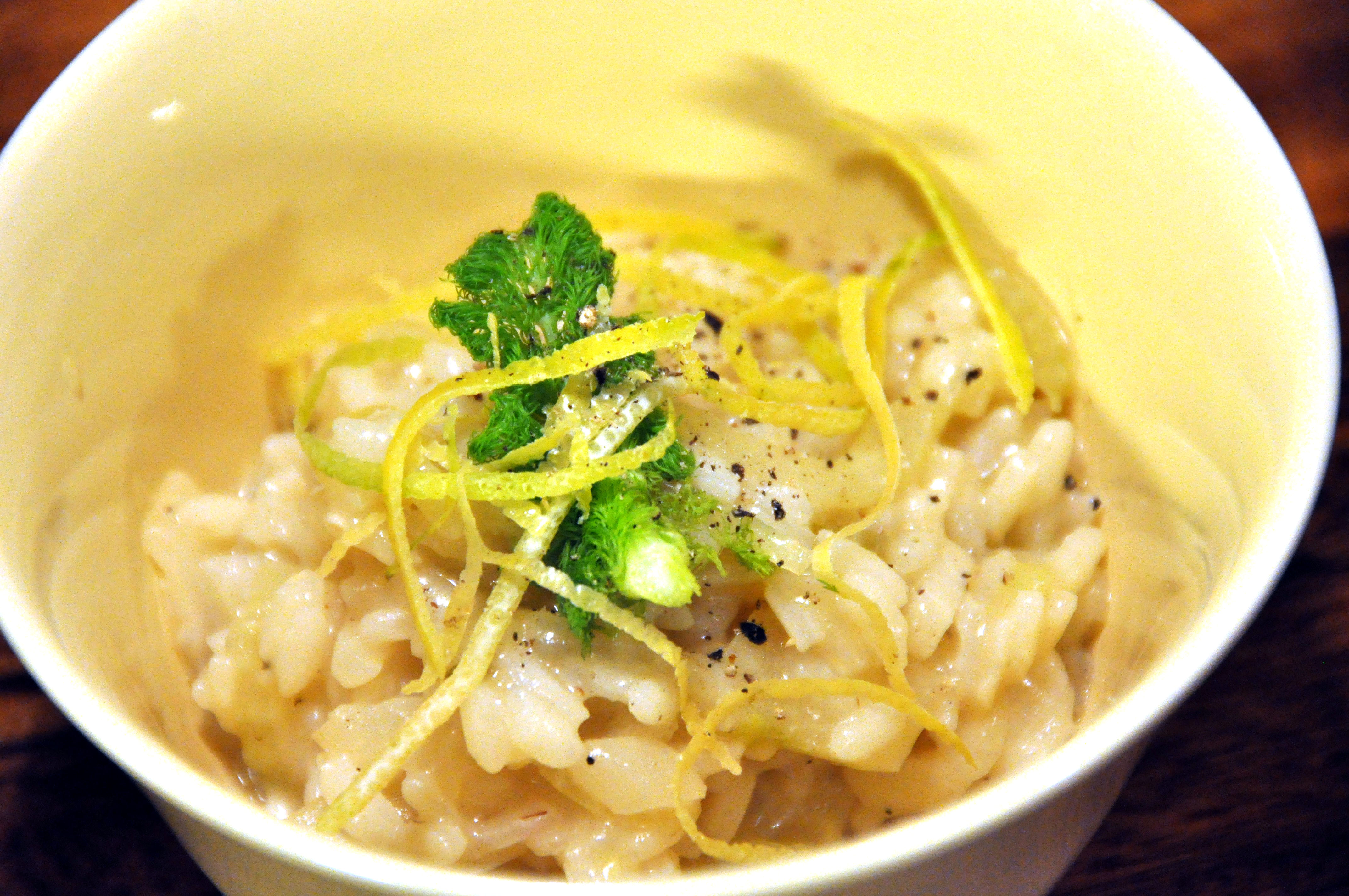 Risotto with fennel and lemon